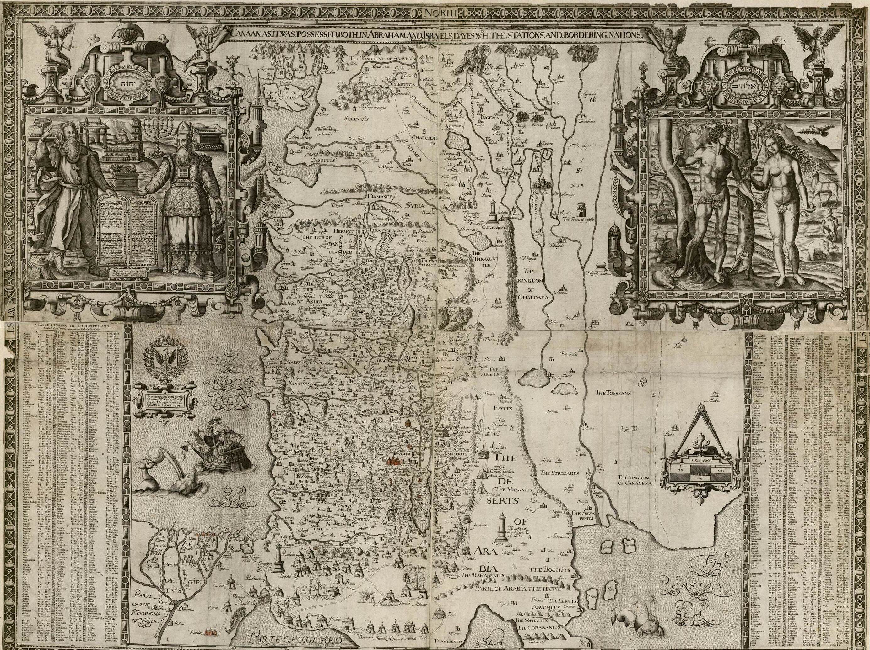 Canaan as it was possessed both in Abraham and Israels dayes with the stations and bordering nations by John Speed